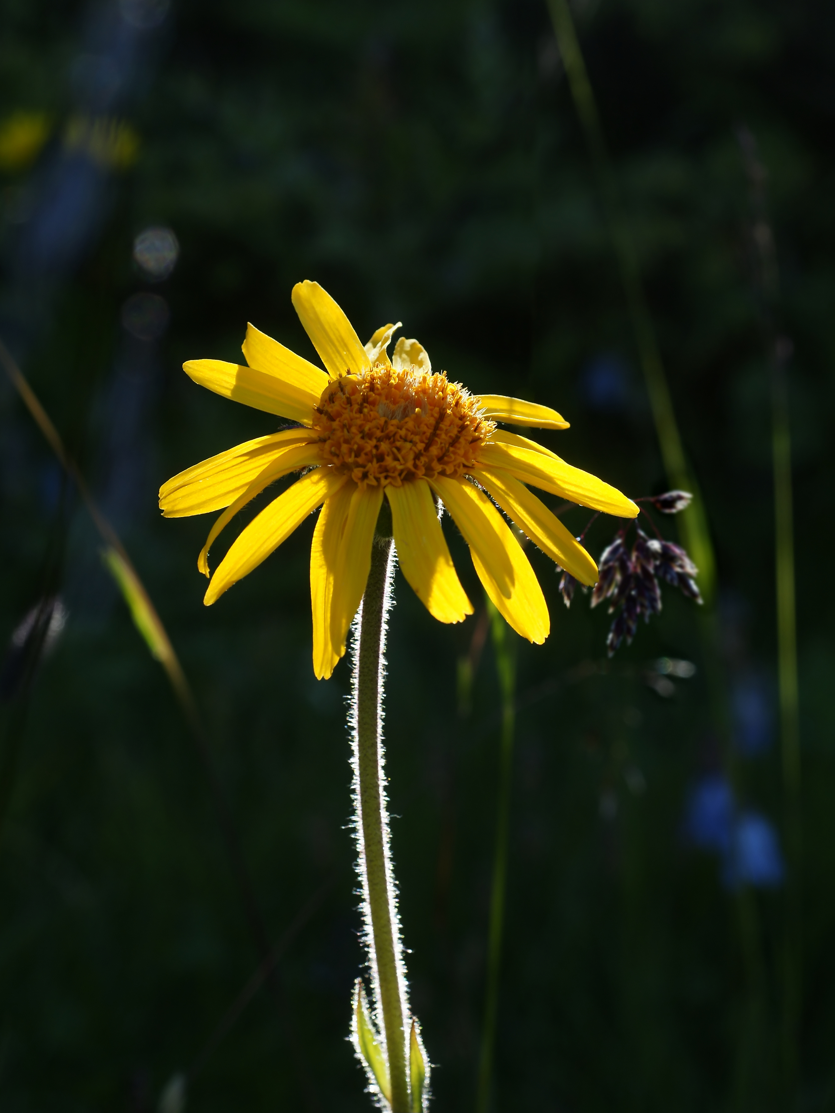 Wolf's bane, at Moosalp, Switzerland